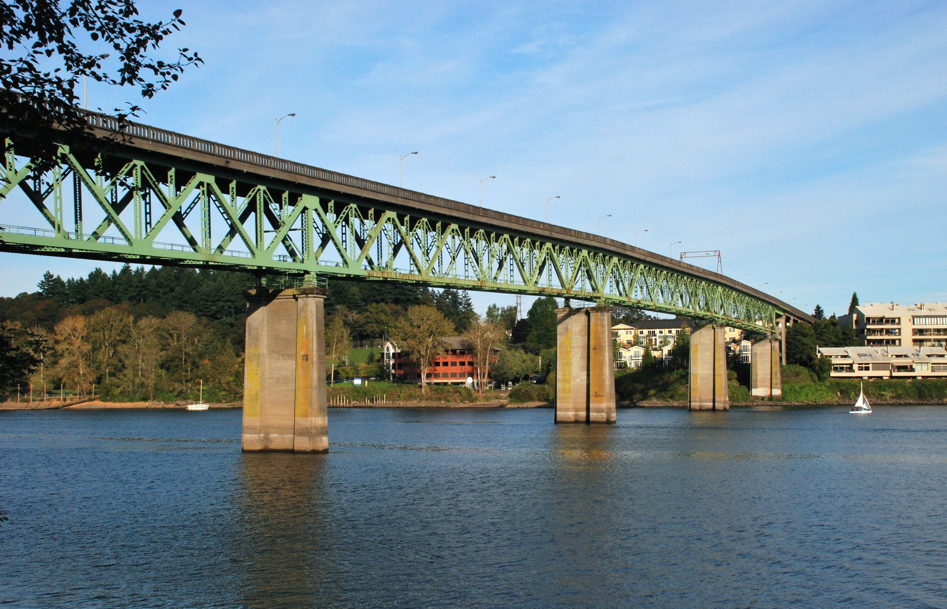 The Sellwood Bridge, in Portland, Oregon, viewed from Powers Marine Park, on the west bank of the Willamette River.